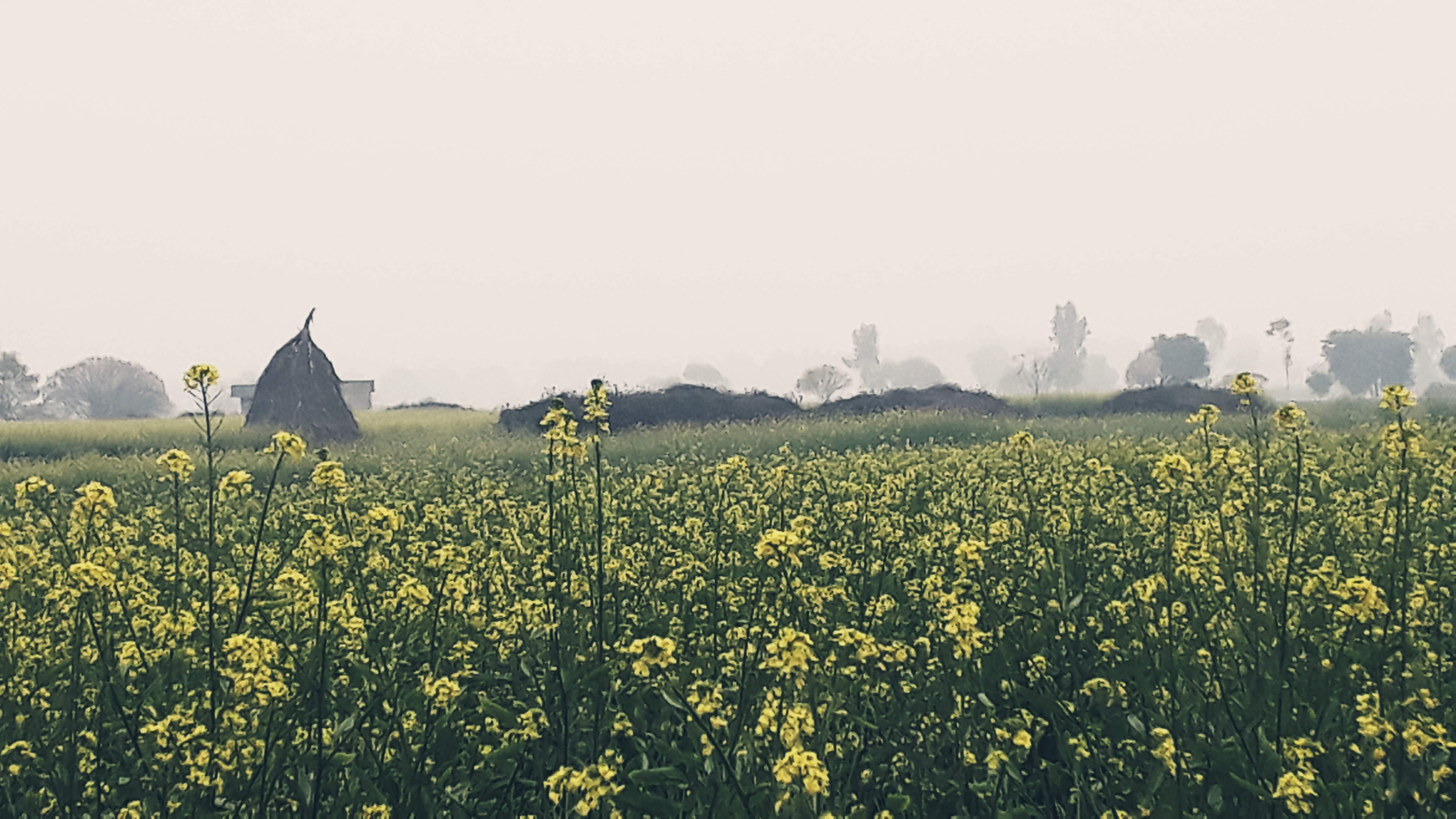 Rori Haryana